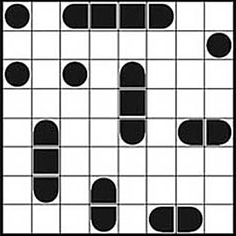 Bimaru Solution